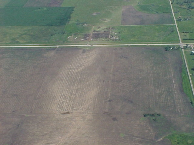 Aerial damage survey of tornado track from Manchester E4 (24 June 2003)